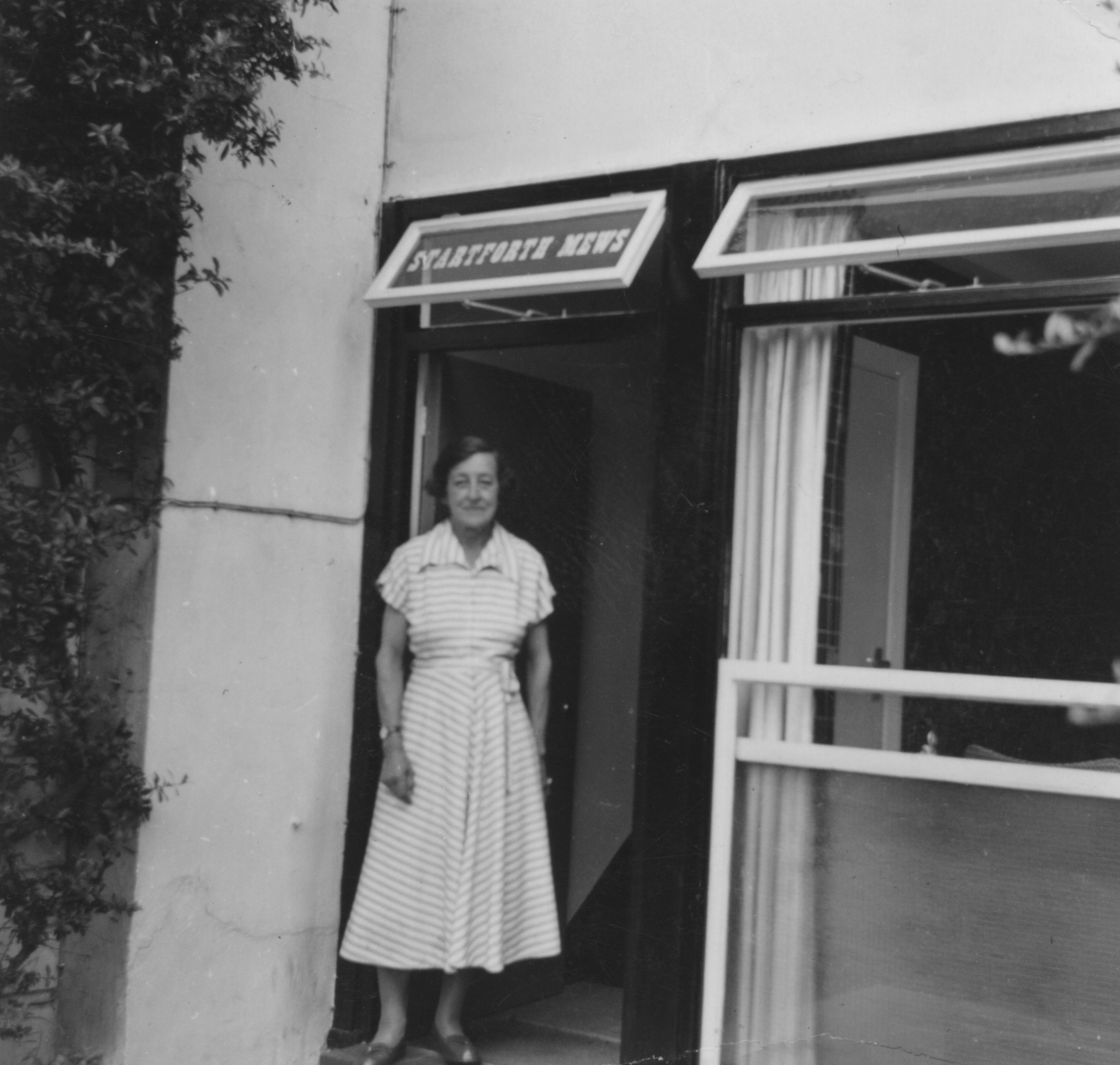 Professor of Economic History 1944 -1954 IMAGELIBRARY/101 Persistent URL